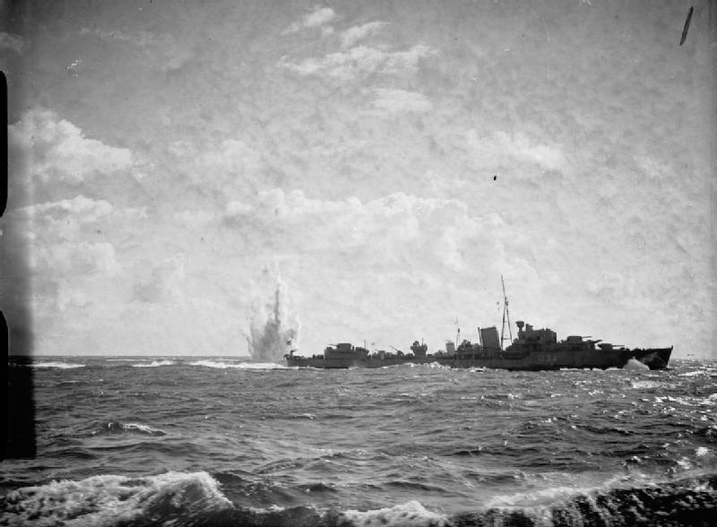 Protograph of British destroyer HMS Jaguar dropping depth charges.